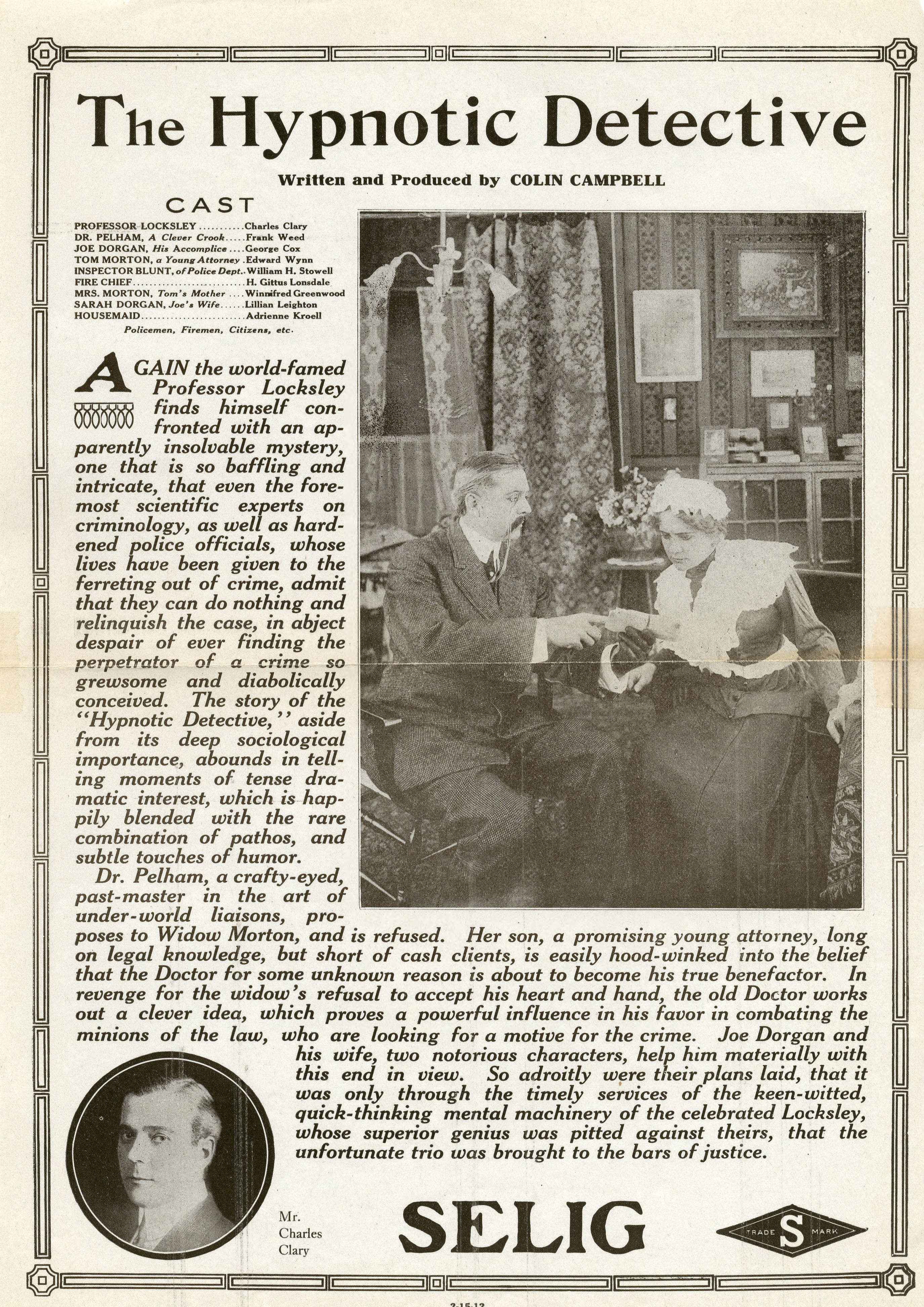 Release flier for THE HYPNOTIC DETECTIVE, 1912